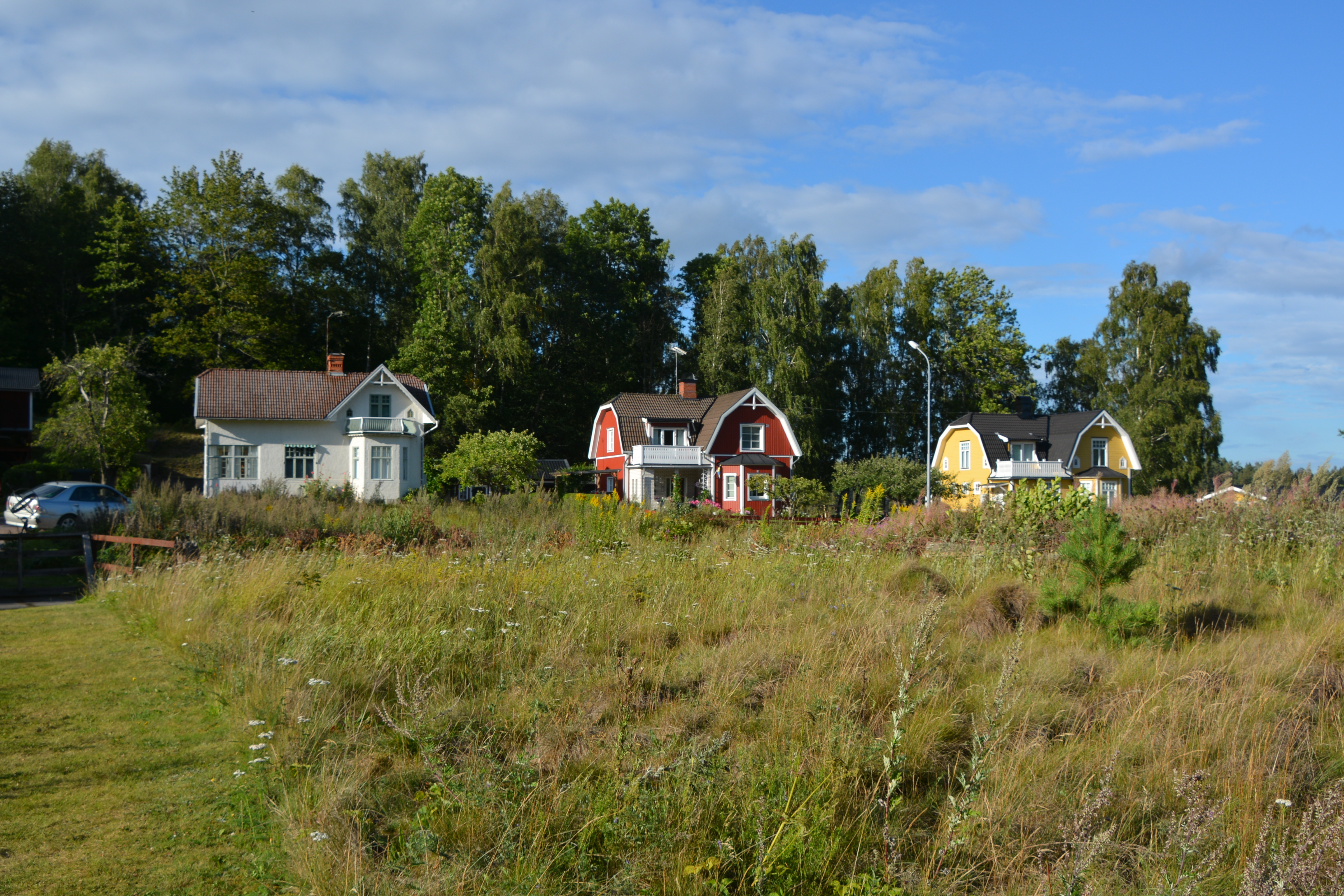 Villor i Hjortöström vid stranden av sjön Hjorten